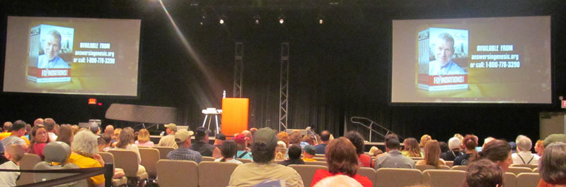 Legacy Hall, an auditorium in the Creation Museum in Petersburg, Kentucky